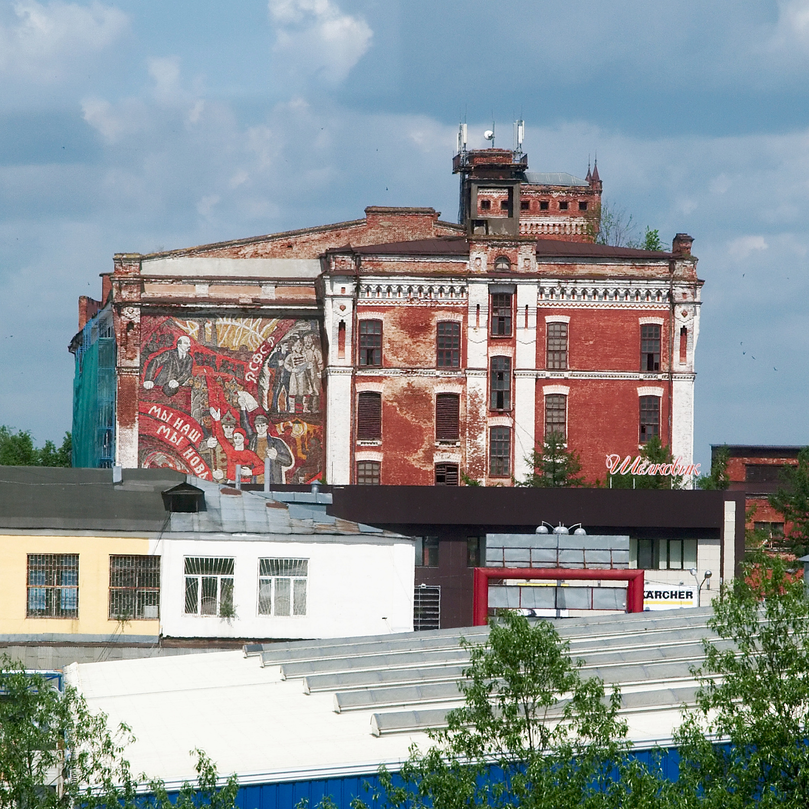 Naro-fominsk, old silk factory (from train window).